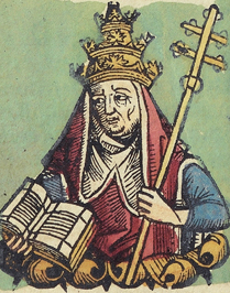 Illustration from the Nuremberg Chronicle (Latin copy in Sao Paulo)